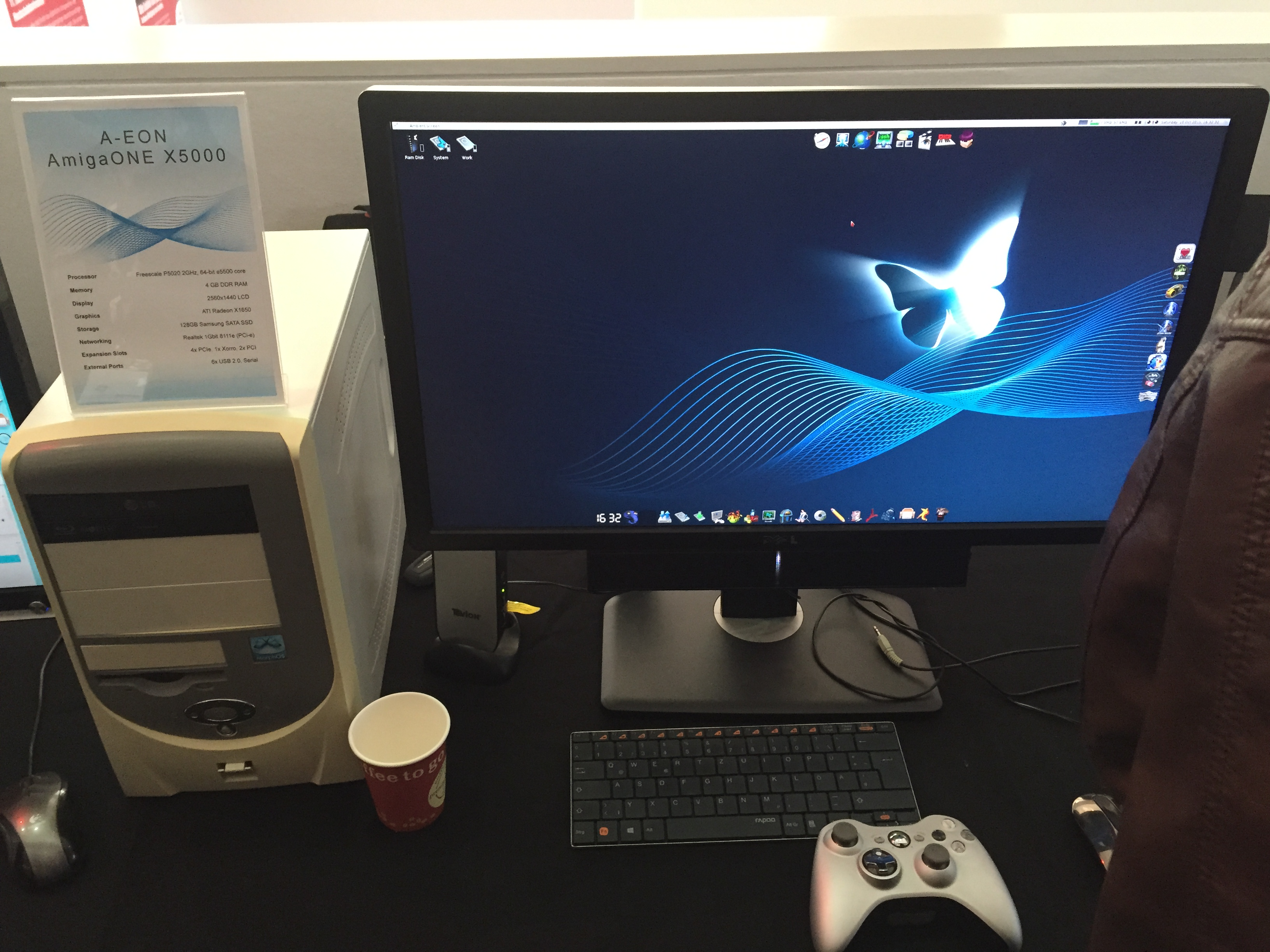 MorphOS 3.10 (beta version) running on A-Eons X5000 computer, showned at Amiga30 in Neuss, Germany, the 10th of October 2015.